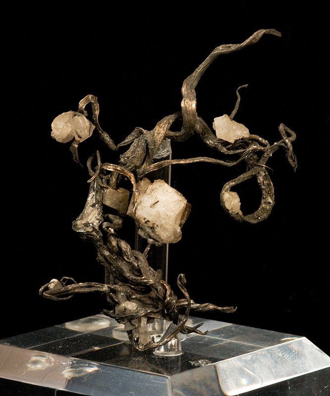 Calcite, Silver Locality: Kongsberg, Buskerud, Norway (Locality at ) Size: small cabinet, 6.4 x 4.6 x 0.6 cm Silver with Calcite Kongsberg silver specimens are frankly not as rare as we would often like to think, when selling them. However, Kongsberg silvres with such character, and such intricate curling for the size, with calcite association no less...this is not so common! Like the gold above, Gamini picked this piece because he said it looked alive, and he wanted to try to convey that feeling in his painting (which I personally think he does). The lustrous, bright calcite crystals provide a contrast and an accent both, helping to give this piece a bit of life and 3-dimensionality because the eye tries to place them "on the tree" in 3 dimensions. I think that, for the size and price range, this is as good as any Kongsberg I have had and that the painting is simply a bonus to a great specimen that is worthy on its own merits. ex. Kevin Ward Collection. Price includes specimen, painting, and custom lucite base for display.